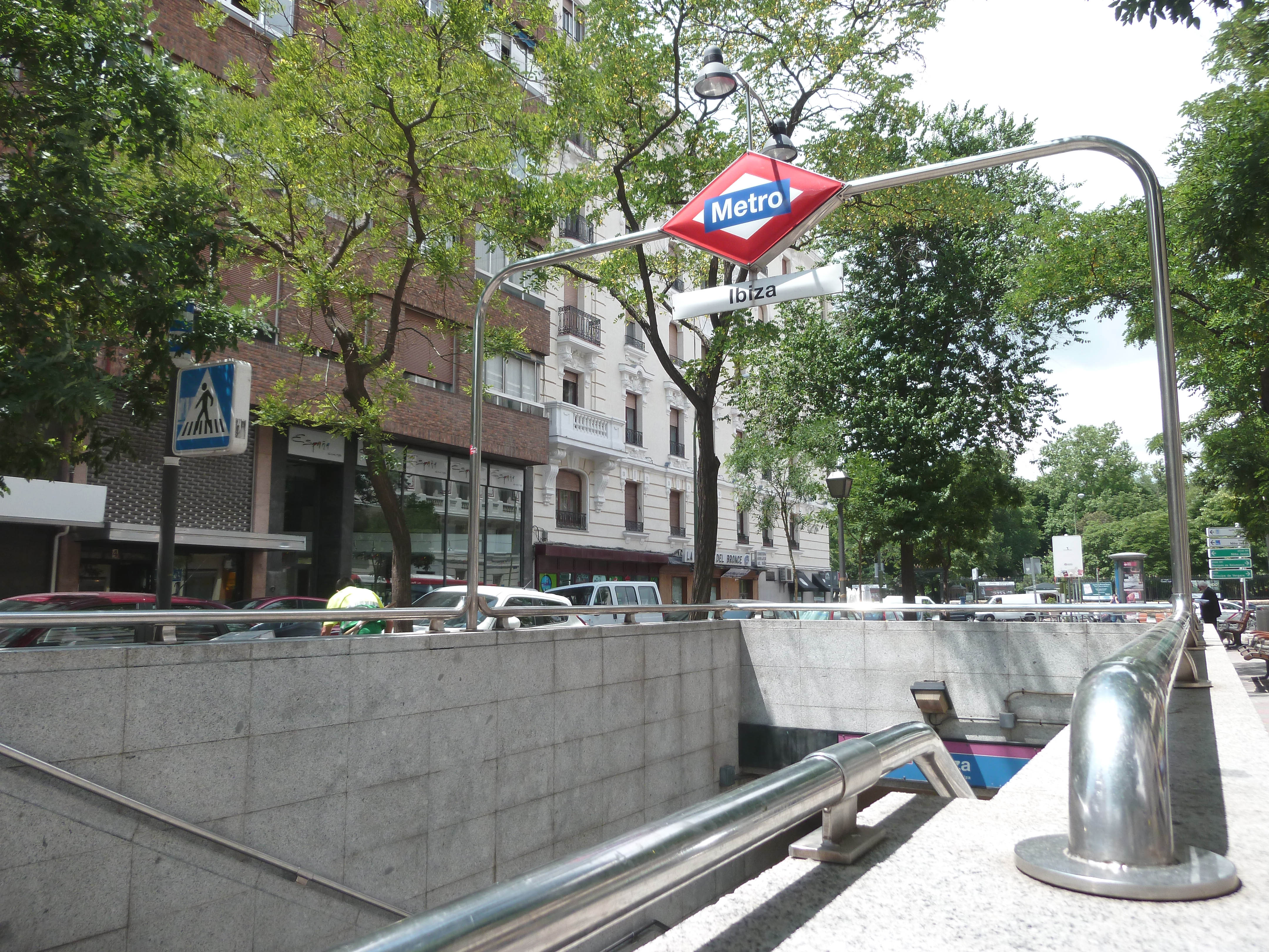 Entrance of Ibiza metro station in Madrid (Spain), at 5th Calle de Ibiza (street) in Retiro district.